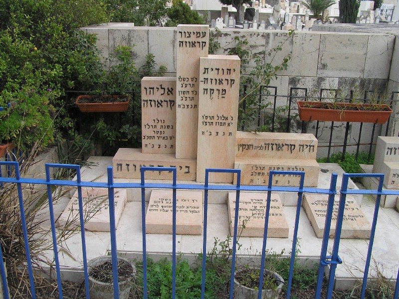 Tombs of Karause family in Trumpeldor cemetery in Tel Aviv photographed by Eman, Fecruary 2006